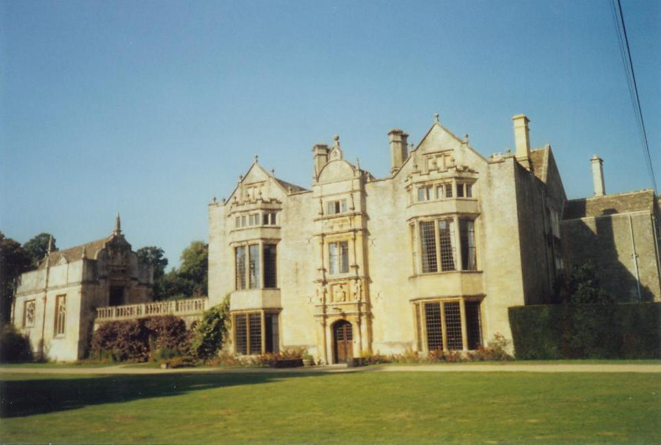 Burford Priory, Burford, Oxon., England